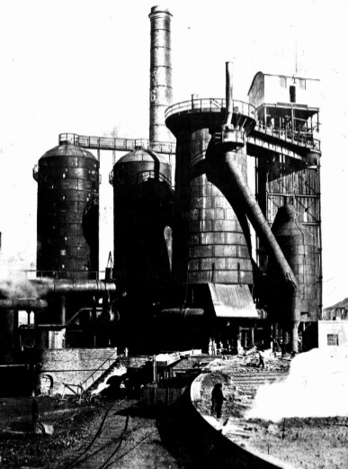 This was the first modern iron-smelting blast furnace in Australia. The new blast furnace has just entered production. The outdoor pig casting are is in the foreground. On the left, two of the stoves are visible. The blast furnace itself is the large cylindrical structure just to the right of centre, with the inclined downcomer pipe carrying furnace off-gases. The structure on the right is the material elevator used to lift the ore and other materials to be charged to the furnace.